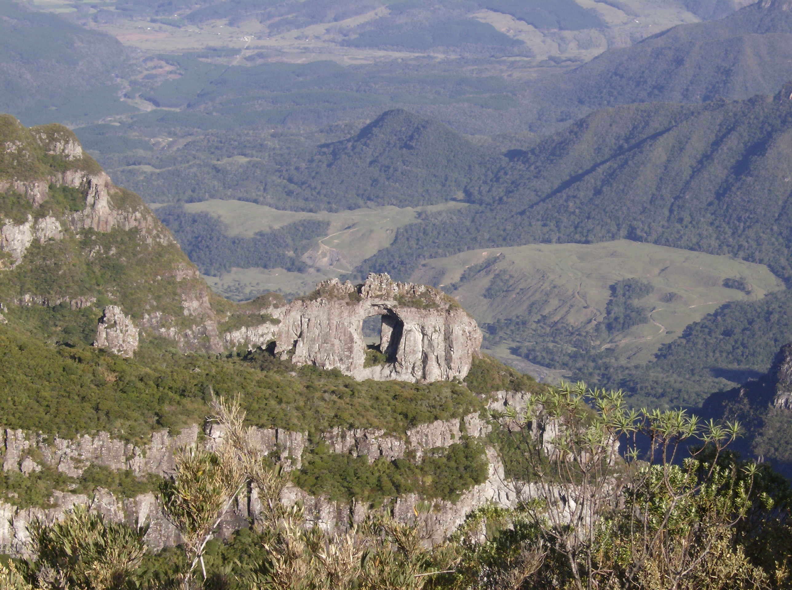 Pedra Furada (